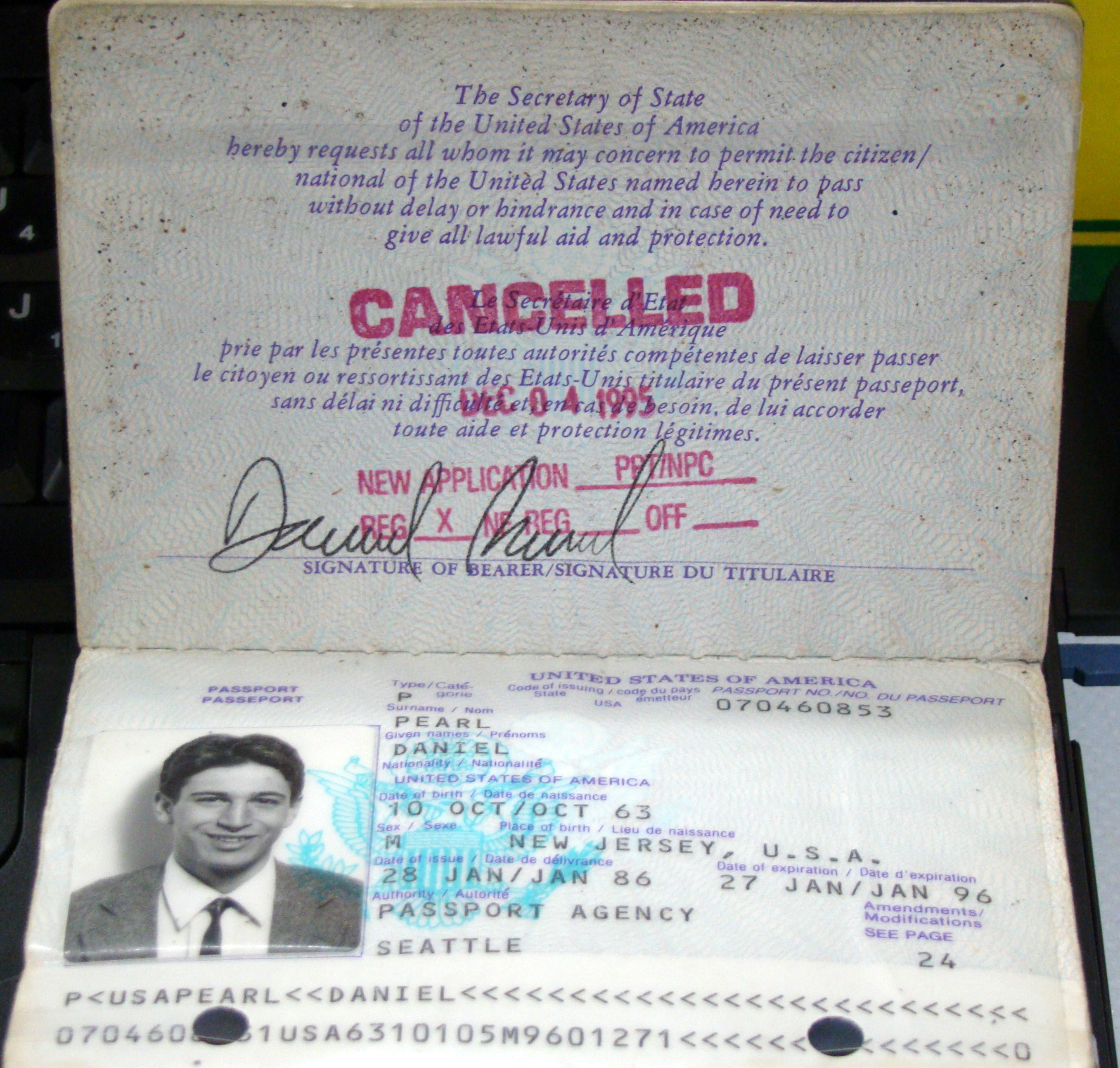 Daniel Pearl's passport, on display in the Newseum, Washington, D.C.